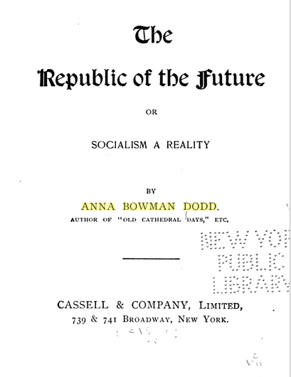 "The Republic of the Future, Or, Socialism a Reality", By Anna Bowman Dodd